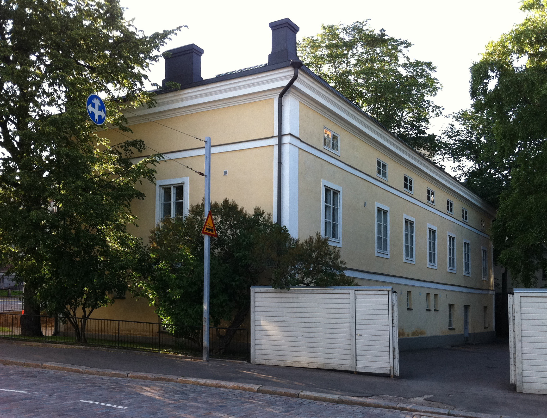 Vanha tulli- ja pakkahuone, toll building, built 1765, Aleksanterinkatu 1, Helsinki